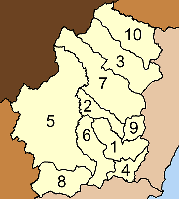 Map of Tha Sae district, Chumphon province, with the communes (tambon) numbered Tha Sae (ท่าแซะ) Khu Ring (คุริง) Salui (สลุย) Na Kra Tam (นากระตาม) Rap Ro (รับร่อ) Tha Kham (ท่าข้าม) Hong Charoen (หงษ์เจริญ) Hin Kaeo (หินแก้ว) Sap Anan (ทรัพย์อนันต์) Song Phi Nong (สองพี่น้อง)